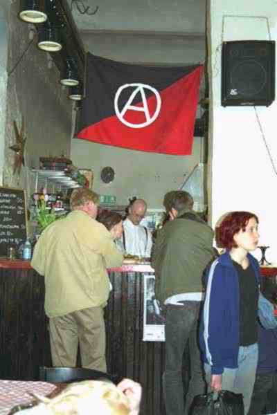 The black and red anarchist flag on display in Kafe 44 in Stockholm.